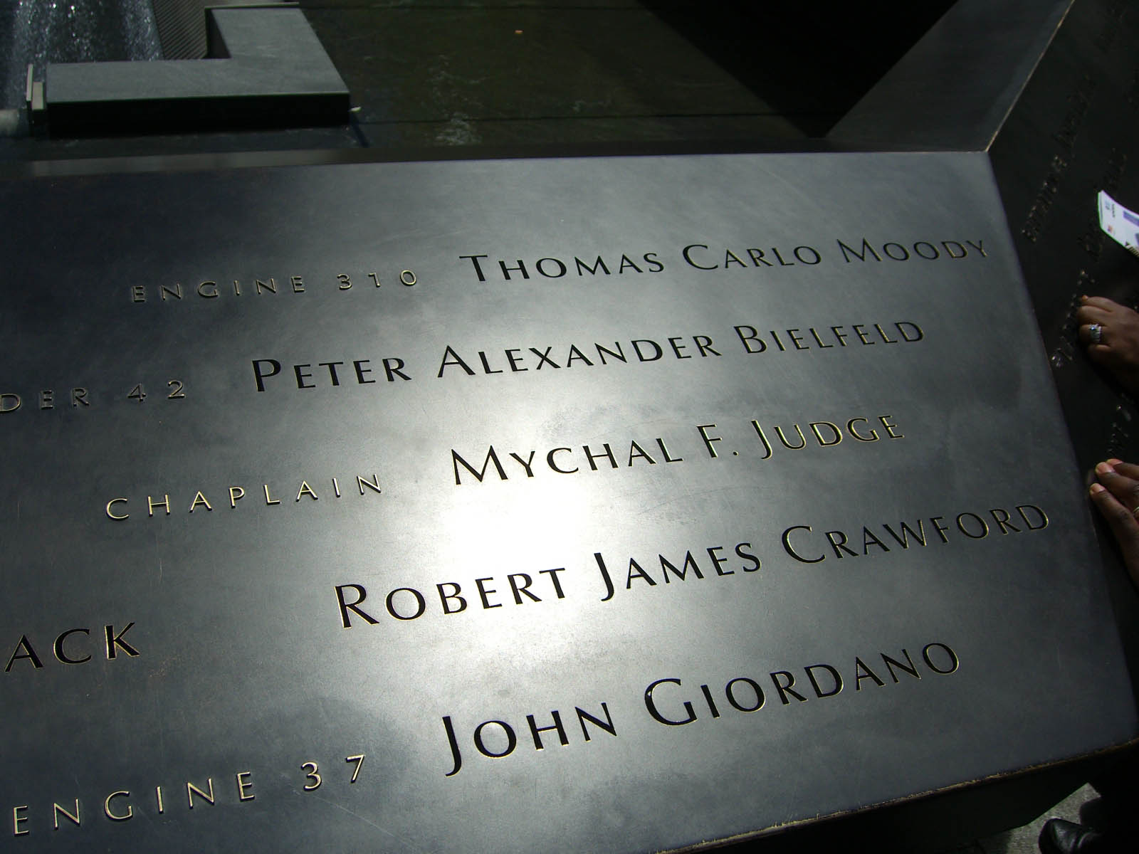 The name of Fire Chaplain Mychal Judge is seen among those of other first responders on Panel S-18 of the South Pool of the National September 11 Memorial in Manhattan, as seen on April 28, 2012. This photo was created by Luigi Novi. If you have any questions, you can contact me by sending me an email or leaving a note at the bottom of my talk page.